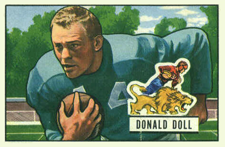 American football player Don Doll on a 1951 Bowman card.